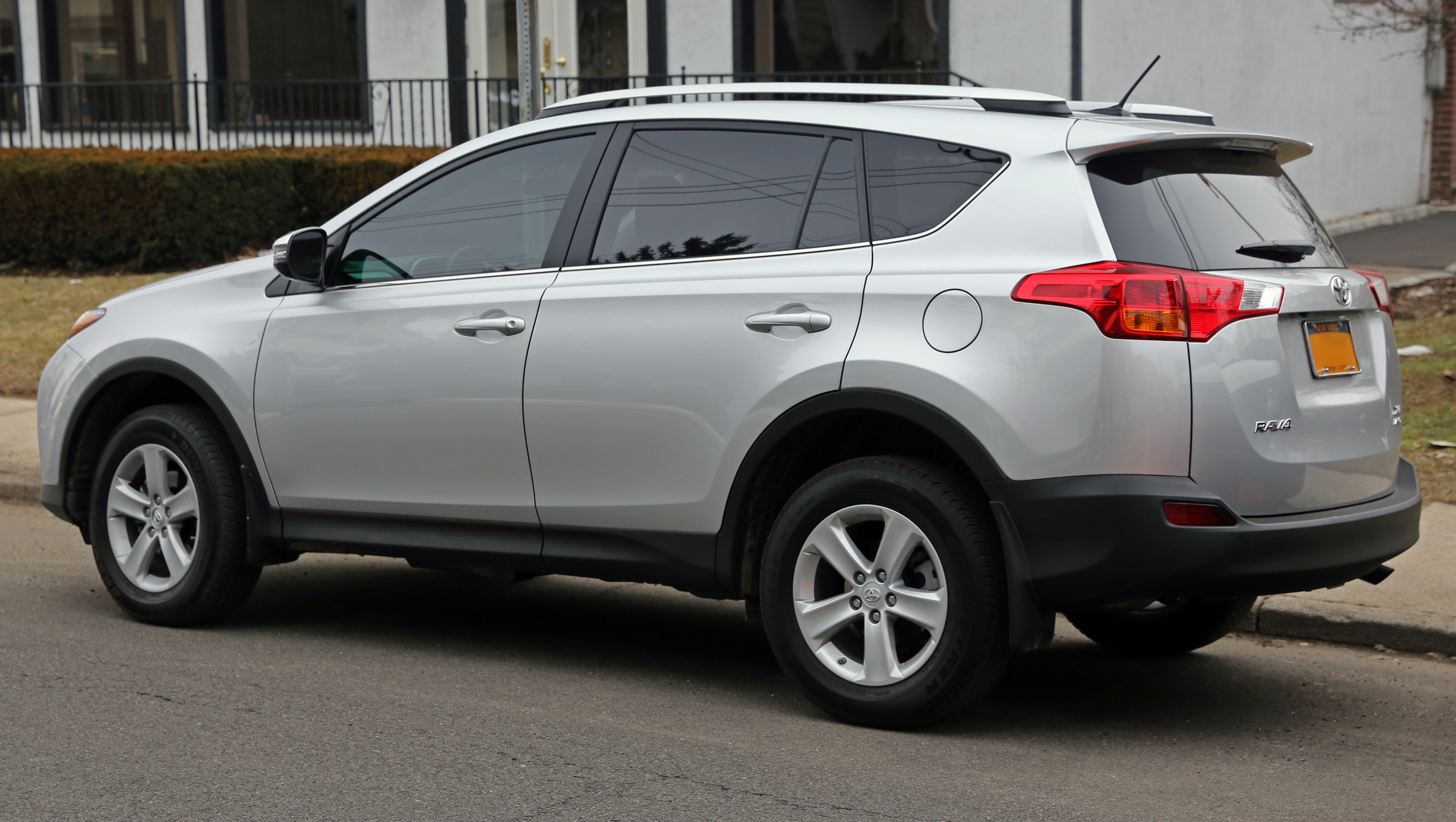 A 2013 Toyota RAV4 XLE AWD, six-speed automatic and 2.5 litre inline-four with 176hp.